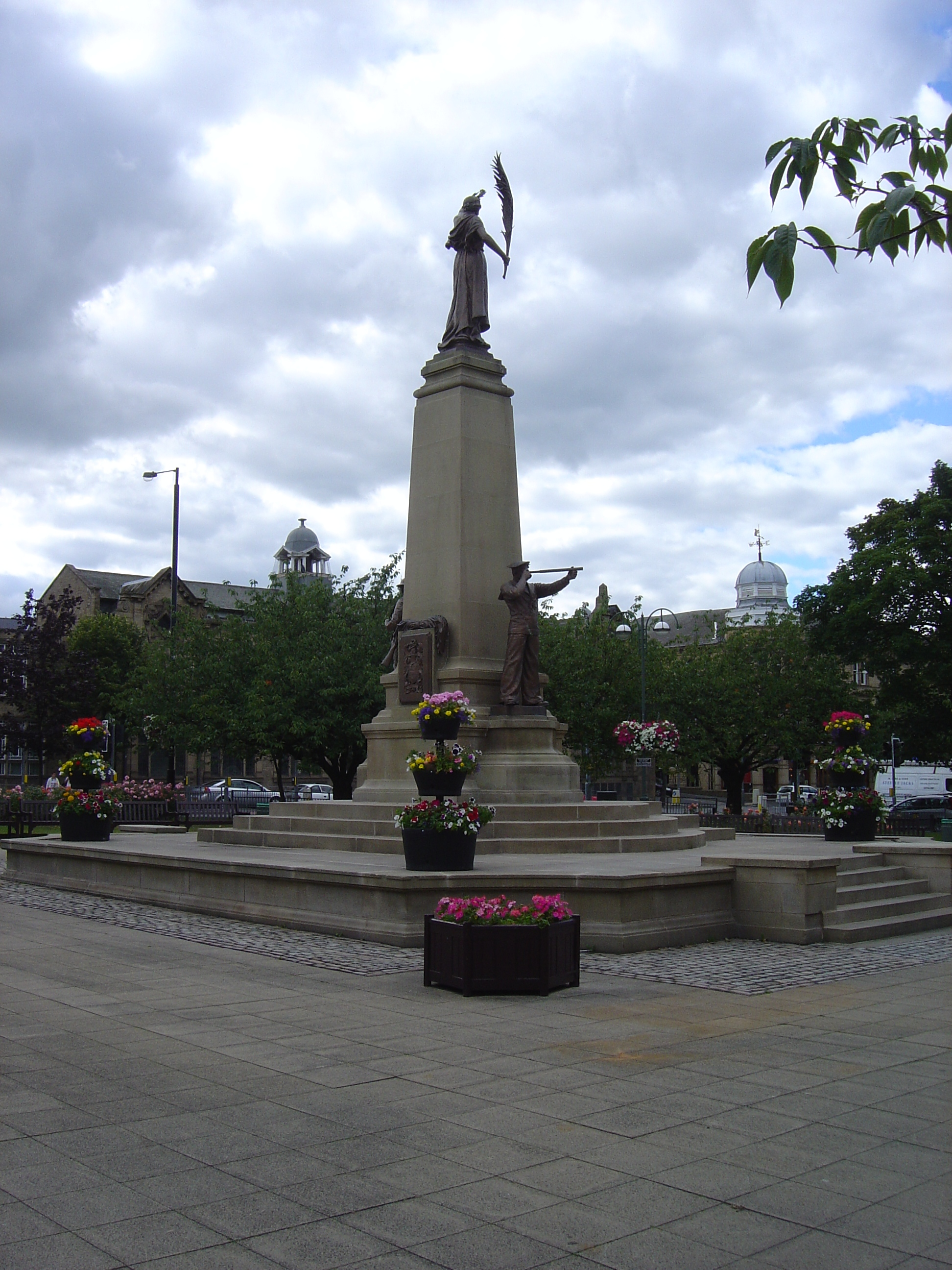 Keighley War Memorial, Keighley, Yorkshire UK. August 2005. Taken by SpaceMonkey.